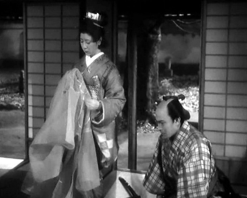 Screenshot from The Life of Oharu, 1952 film. Kinuyo Tanaka as Oharu, Toshirō Mifune as Katsunosuke.